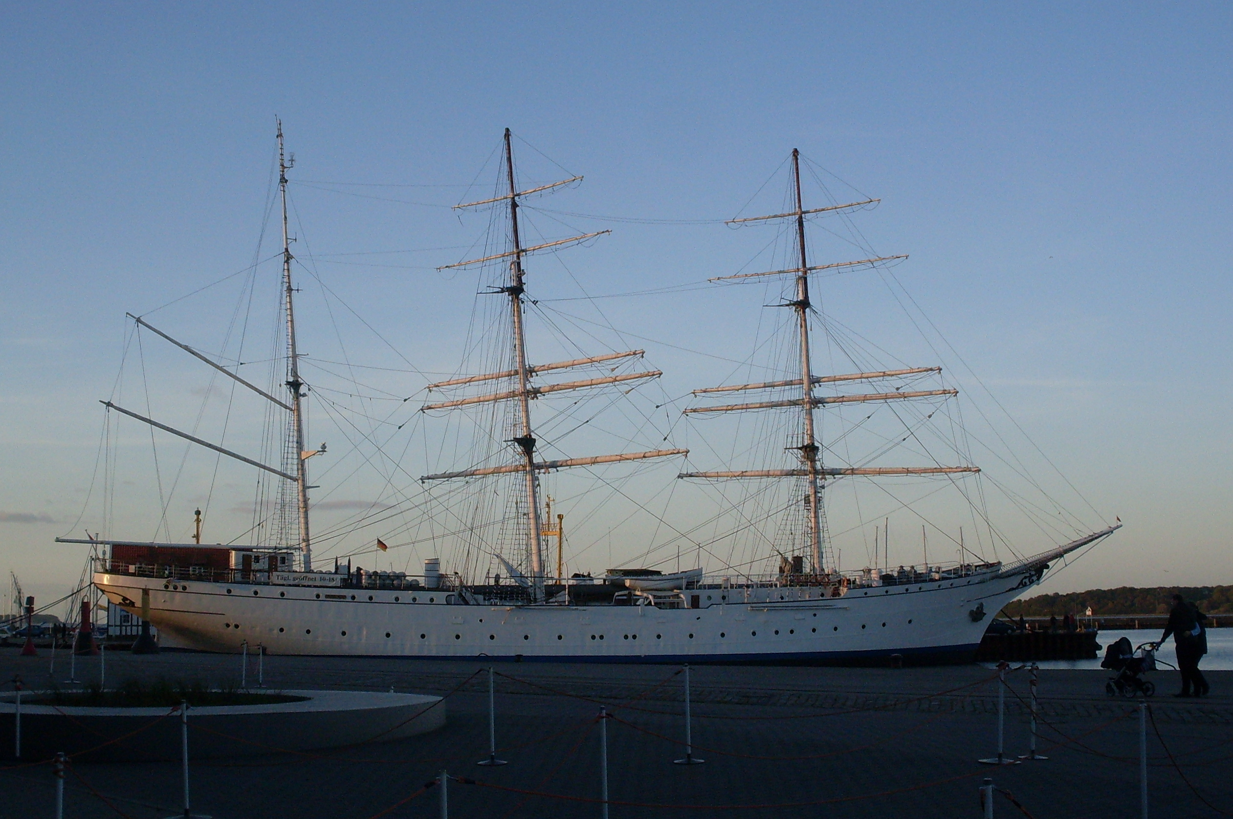 Stralsund: Gorch Fock